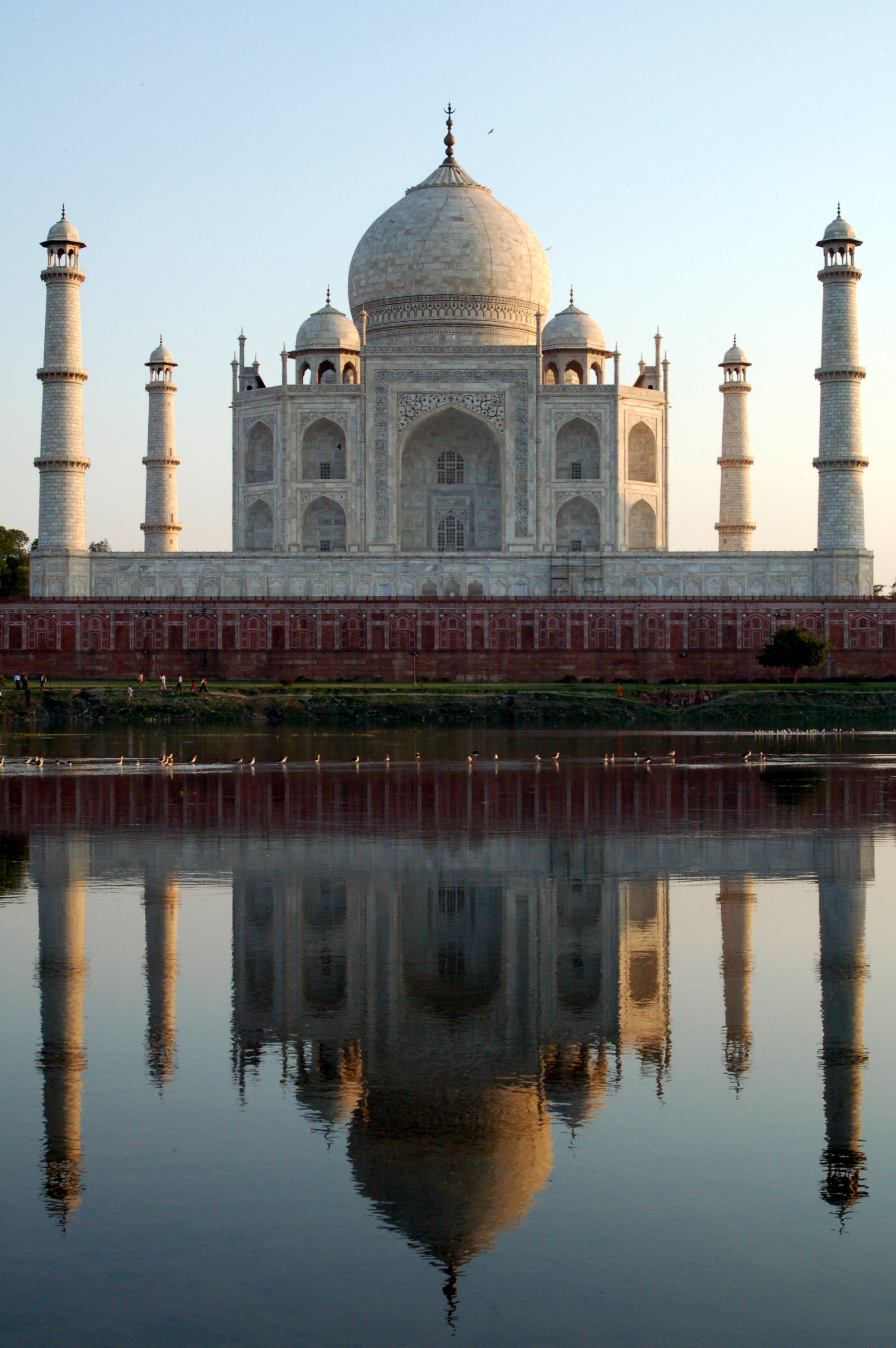 Taj Mahal, Agra, India.